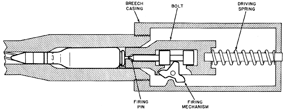 Simpified schematic of blowback mechanism with advanced primer ignition